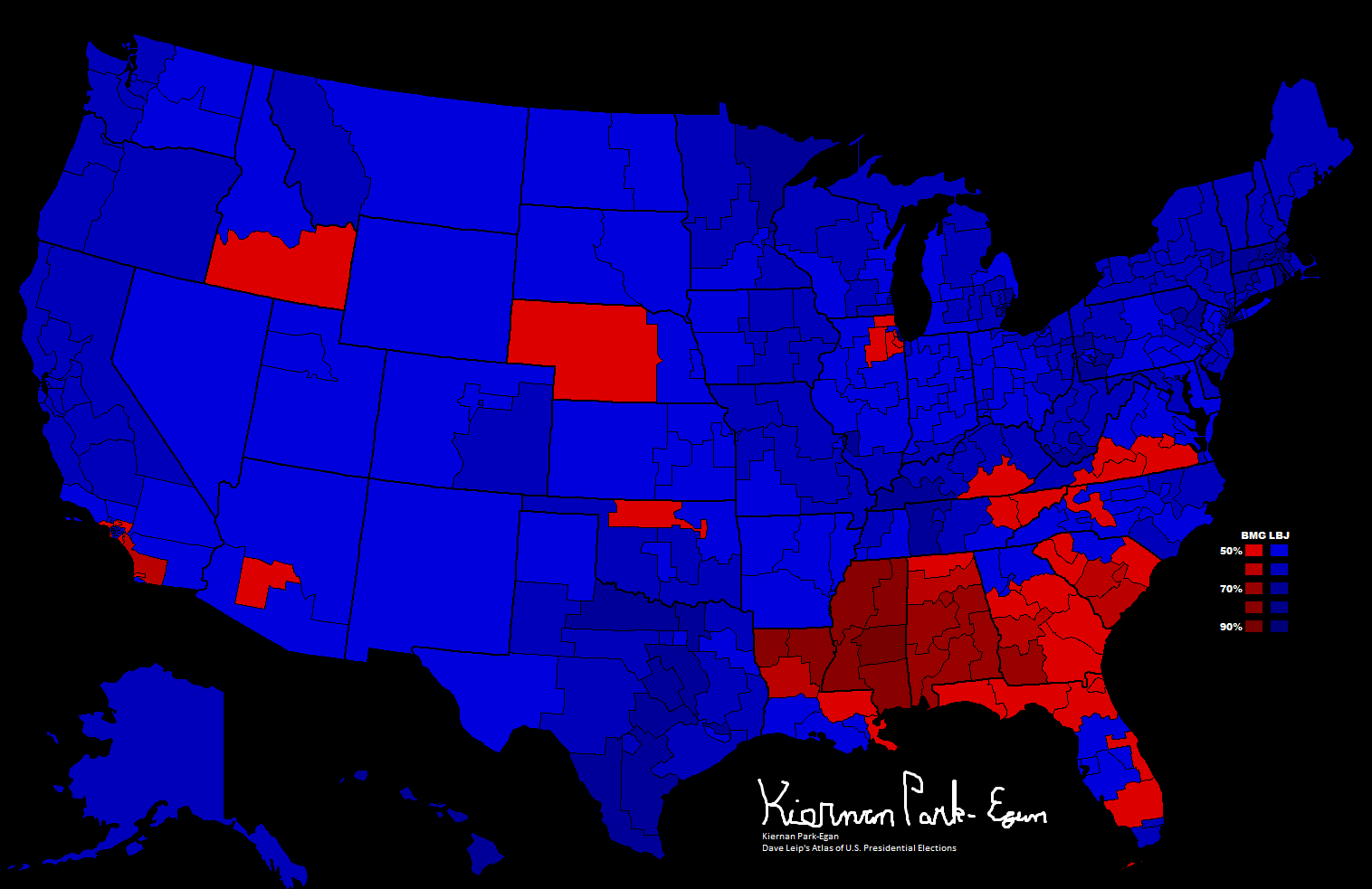 This map shows the results of the 1964 U.S. Presidential Election in each congressional district.